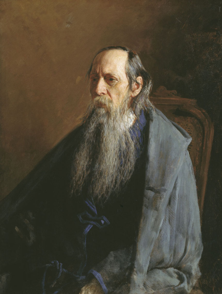 Mikhail Yevgrafovich Saltykov-Shchedrin